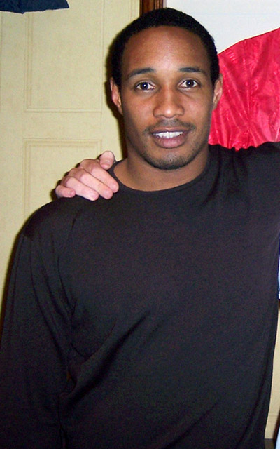 Paul Ince, English footballer and coach